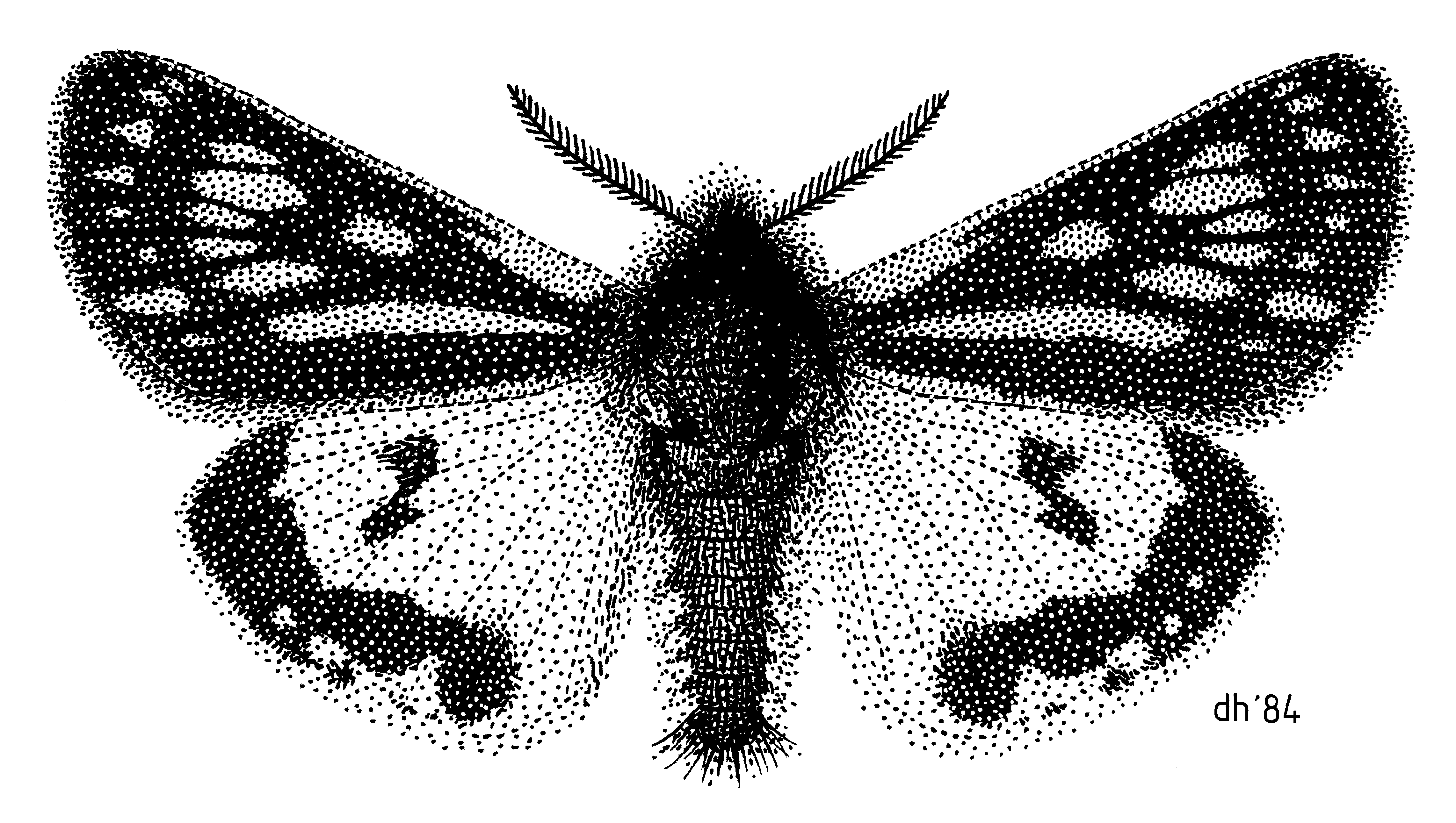 (Lepidoptera: Arctiidae) Metacria erichrysa illustrated by Des Helmore.